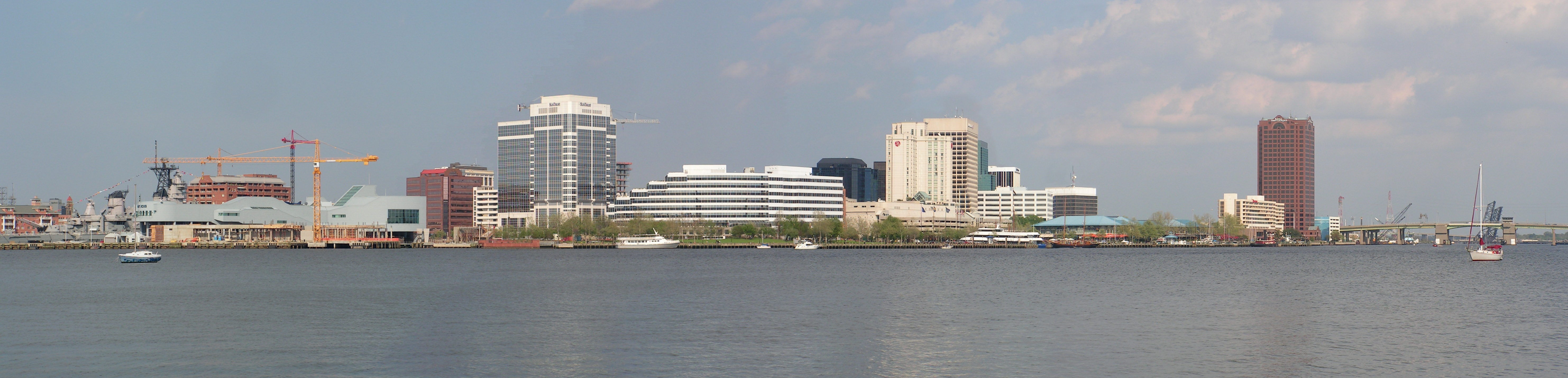 The panoramic skyline of Norfolk, Virginia, viewed from a small park on the grounds of Portsmouth Naval Hospital. Seven pictures were taken with a Konica Minolta DiMAGE Z10 with the help of a firmly anchored tripod. Due to difference in exposure, which caused the sky and water of the first three composing pictures to be of completely different brightness, I chose to use a composite method for assembling the panorama. The right part was hand-stiched in Paint Shop Pro 8 with the help of a graphic tablet's eraser function: each picture was a separate layer, and I gradually erased with 10% opacity parts away from the edges of the pictures. The left part would've required more work with brightness correction, so I chose to resort to a semi-automatic stiching program instead, which fortunately took care of the color differences. I combined the two halves in Paint Shop Pro with the same erasing technique.